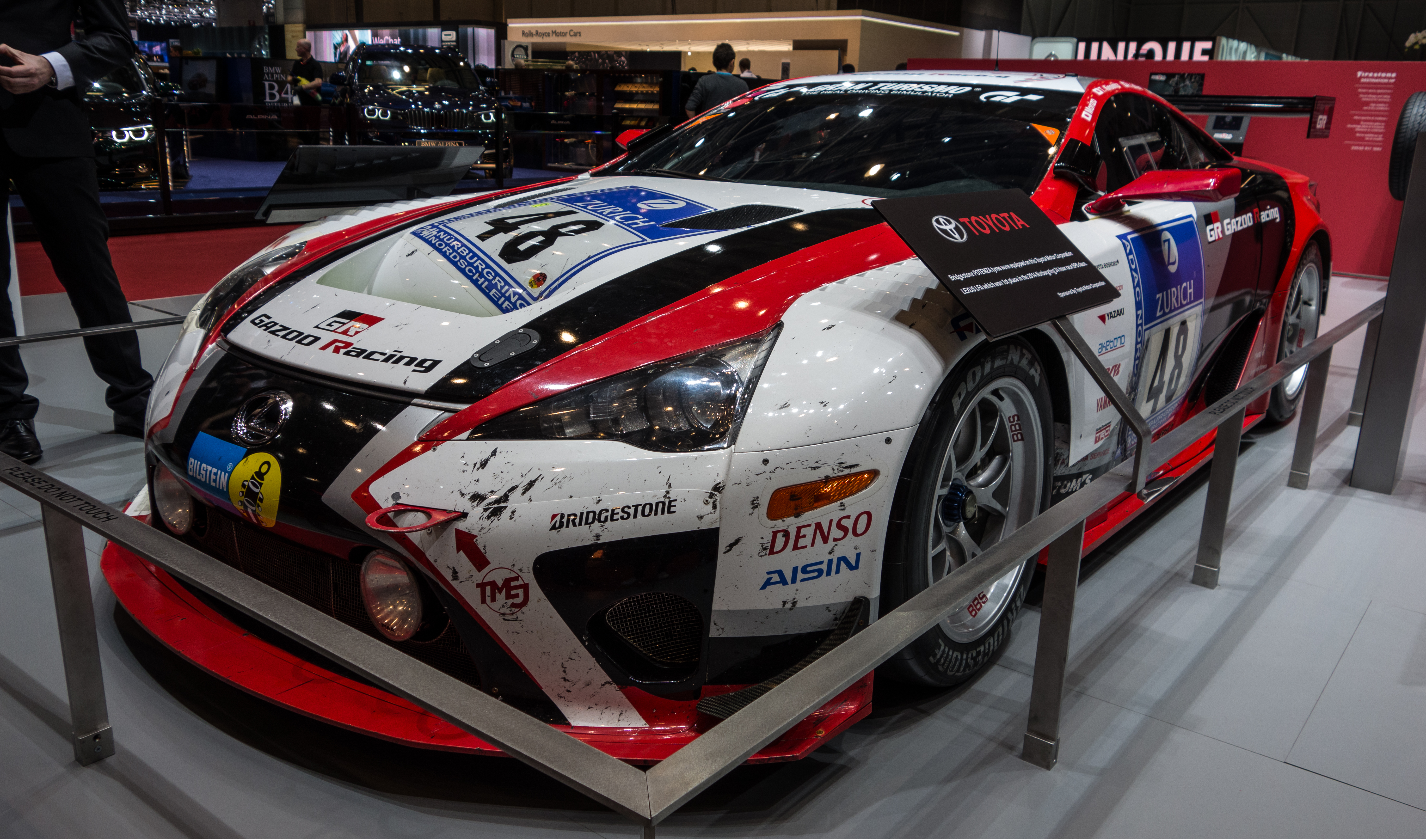 V8 1LR-GUE 5.3L 24 Hours of the Nürburgring